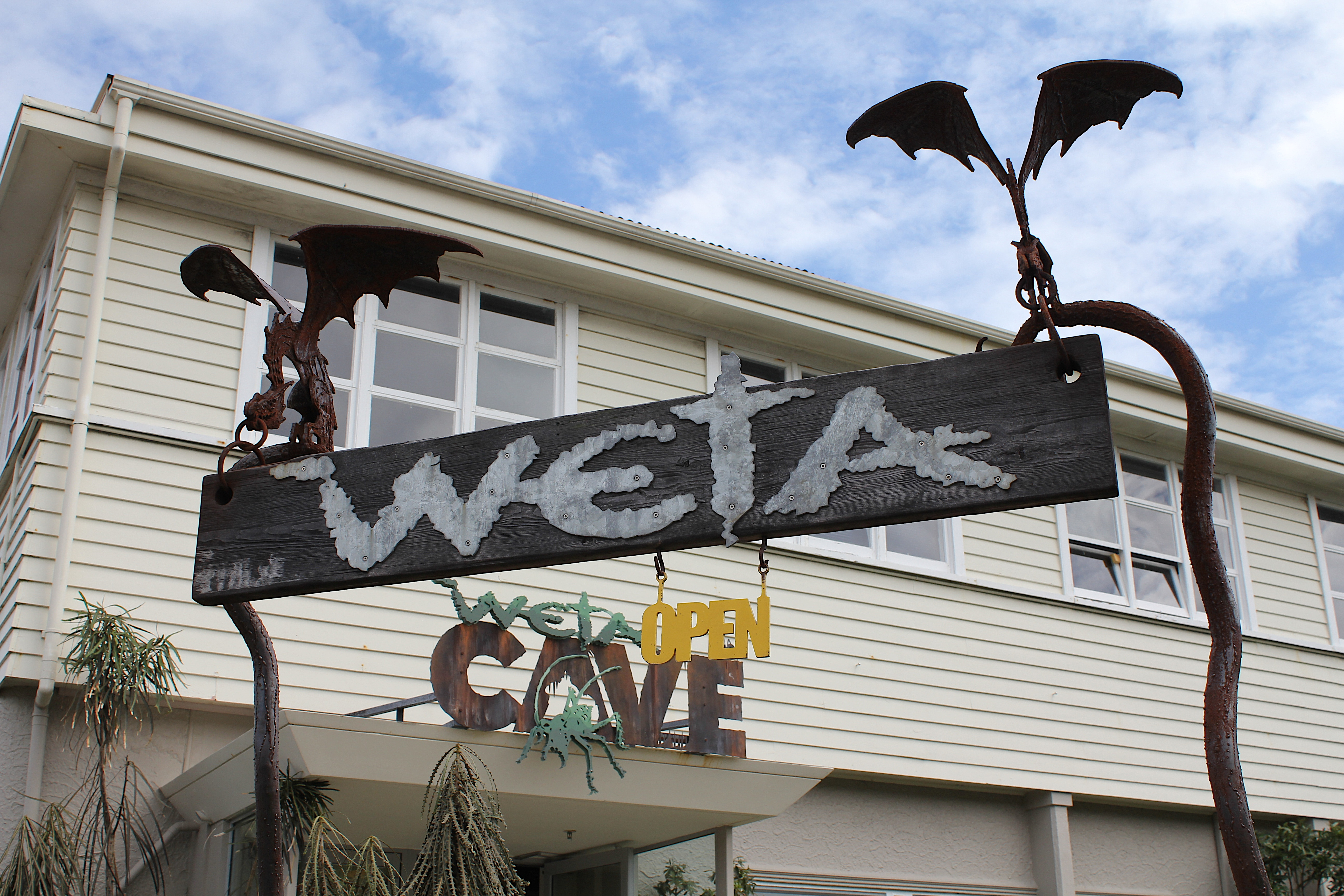 The Weta Cave, in Miramar (Wellington).